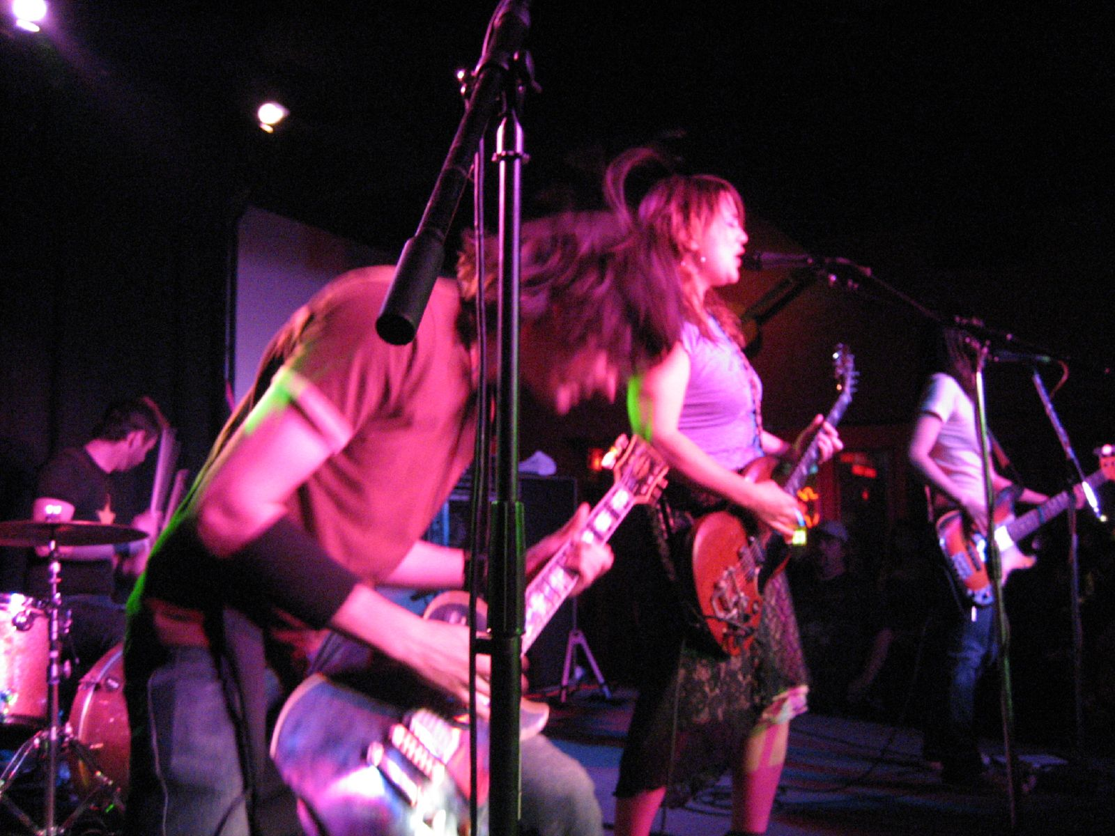 Veruca Salt in 2005. l2r: Scott (drums), Fitzpatrick (guitar), Post (singing), Fiorentino (bass)